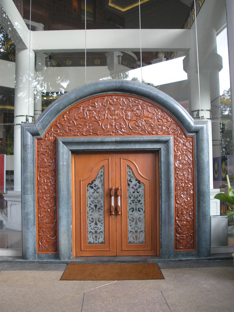 One of the doors with traditional wood-work at the Istana Budaya in Kuala Lumpur.